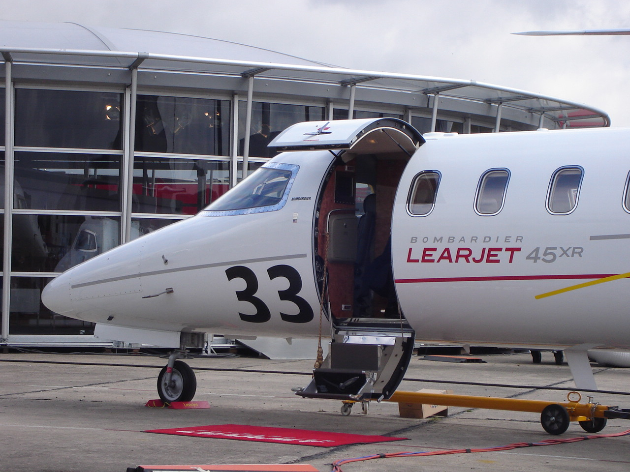 Bombardier Learjet 45XR - 33, closeup portside with door open at the 2007 Paris Air Show.